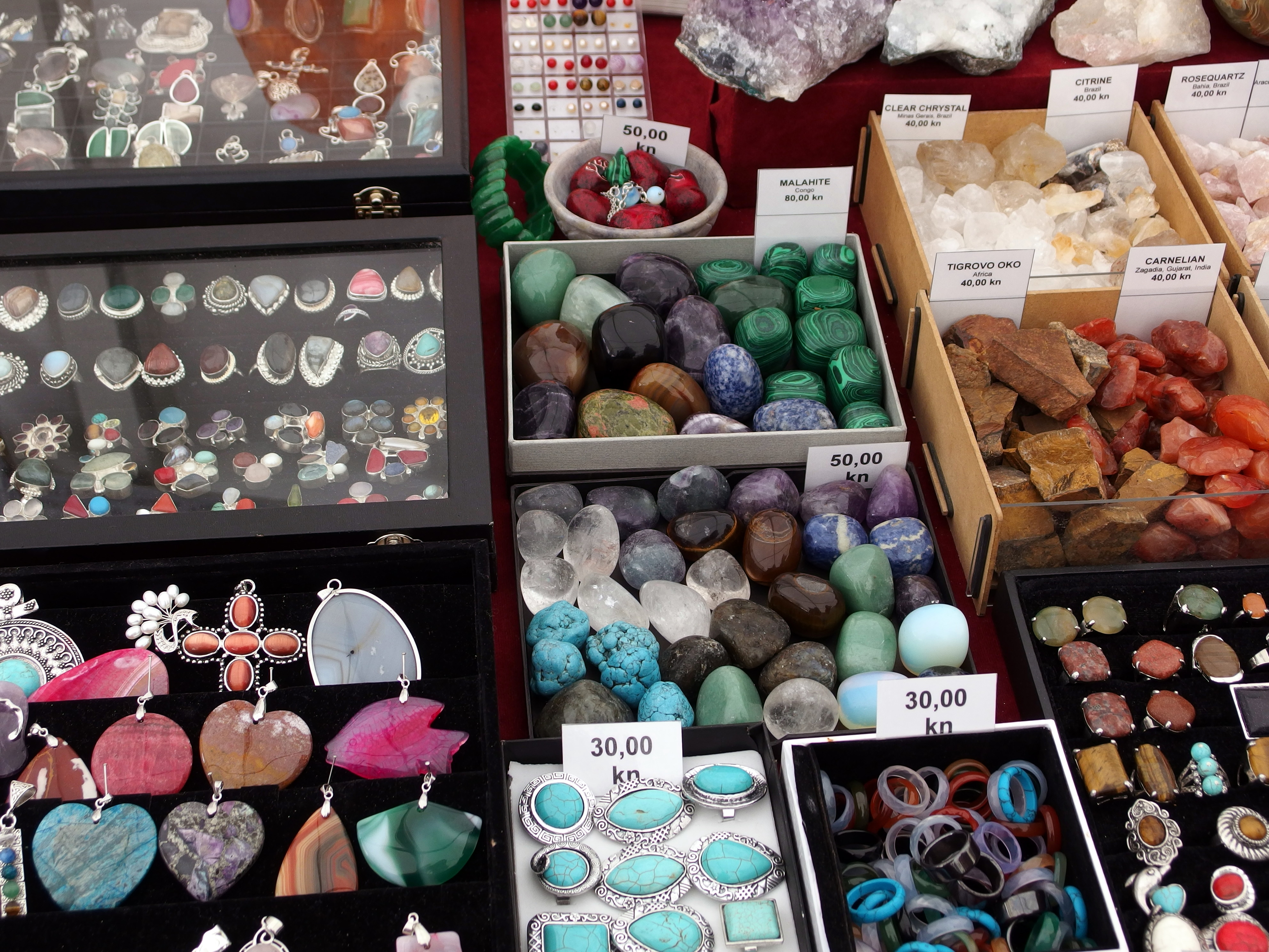 2013-06-03 in Split.